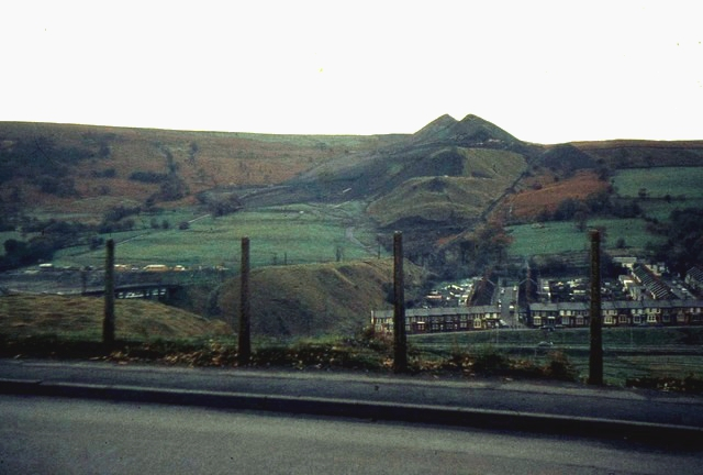 Aberfan and old coal tips Picture taken before these tips were removed